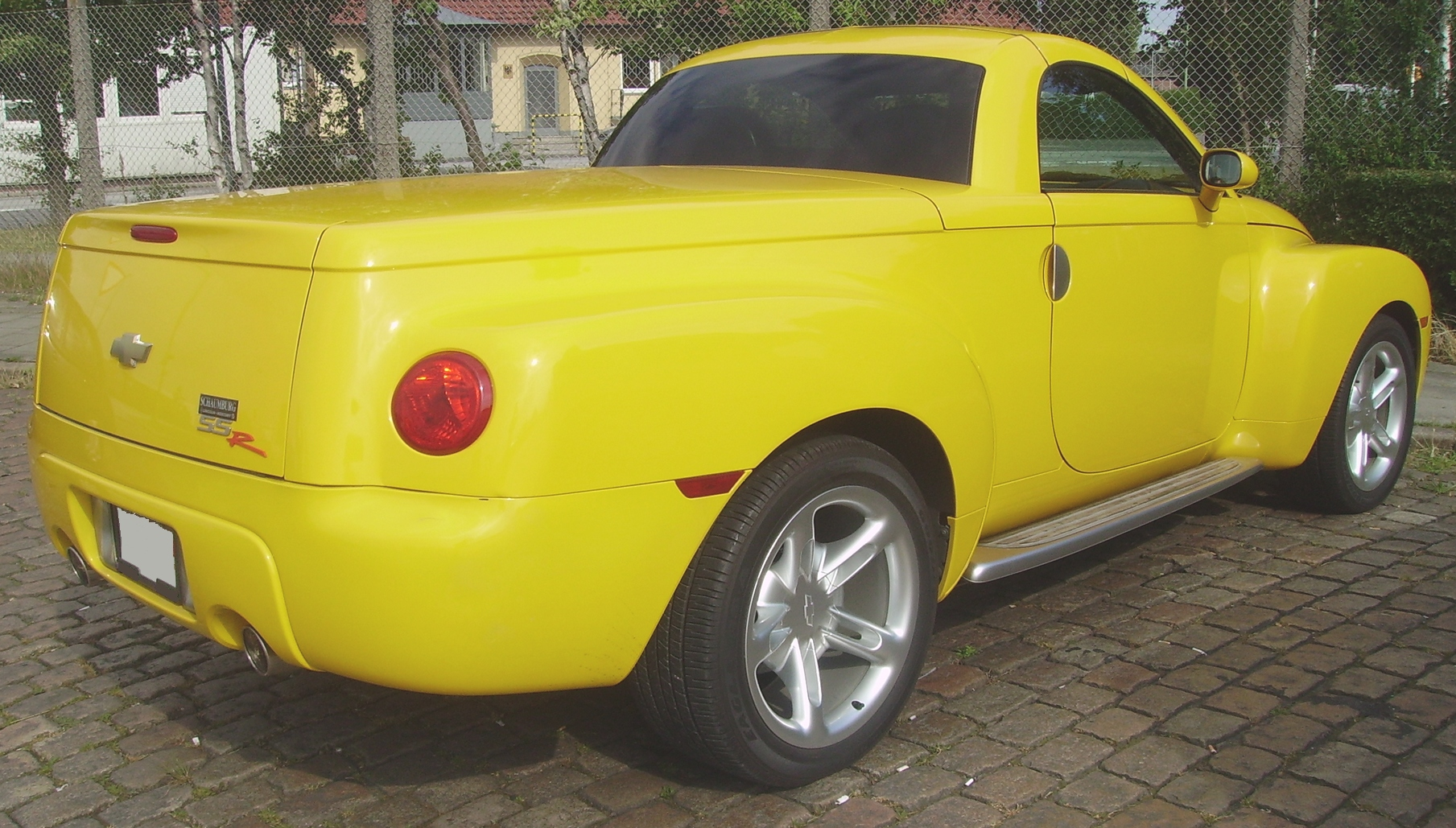 Rear view of a Chevrolet SSR